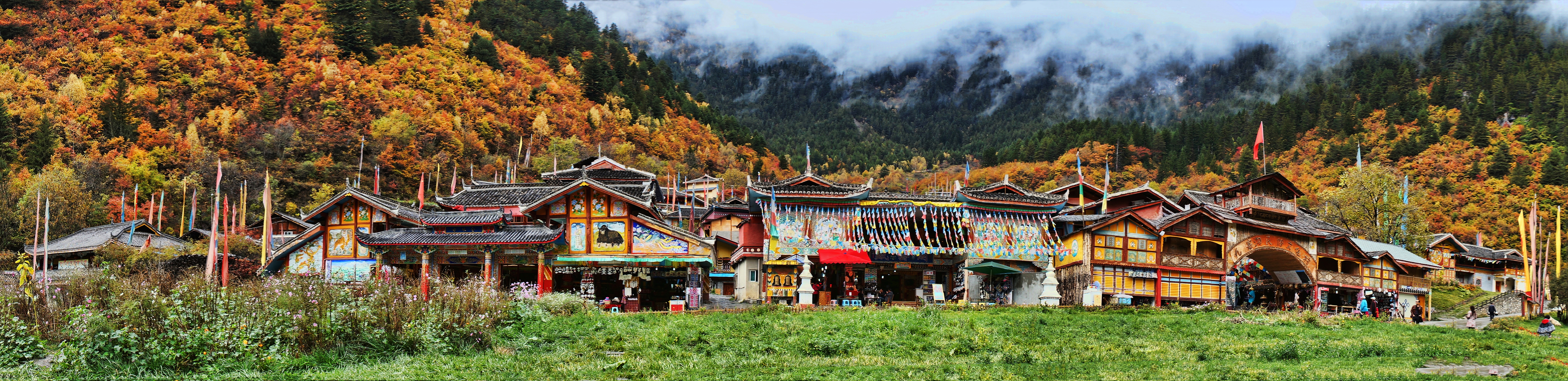 Shuzheng Village, in the Shuzheng Valley of Jiuzhaigou National Park, Sichuan, China.